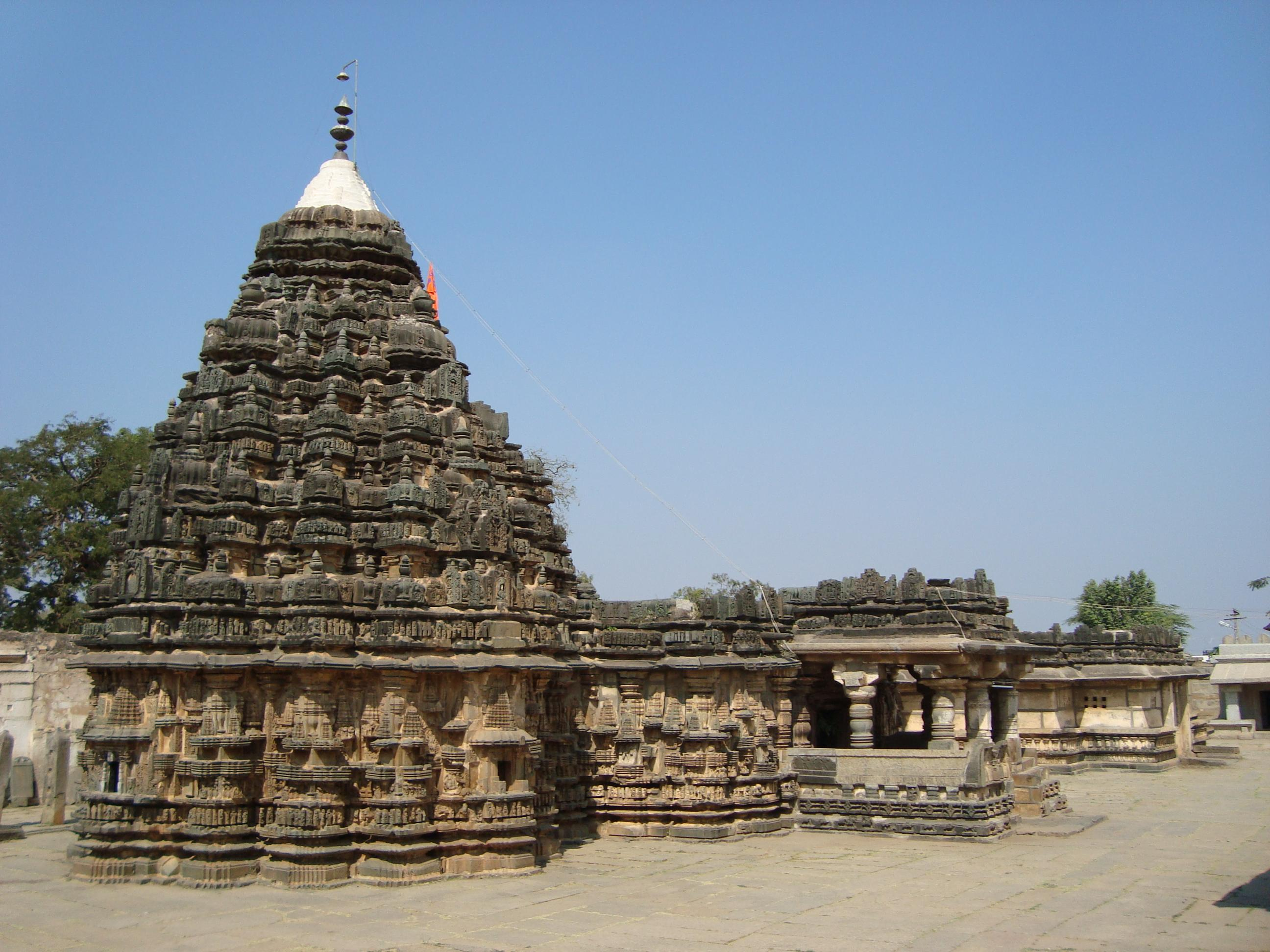 Lakshmeshwara Someshwara temple Author and source : Manjunath Doddamani, Gajendragad/Hubli, Karnataka(North), India.